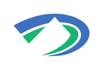 Flag of Tsurugi Tokushima